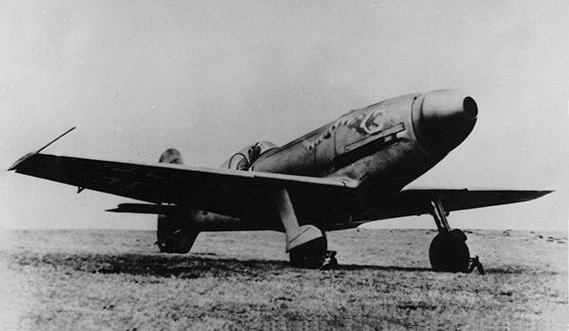 The German Messerschmitt Me 209 V4 (D-IRND, later CE+BW) with fake military markings that had been applied for propaganda purposes.